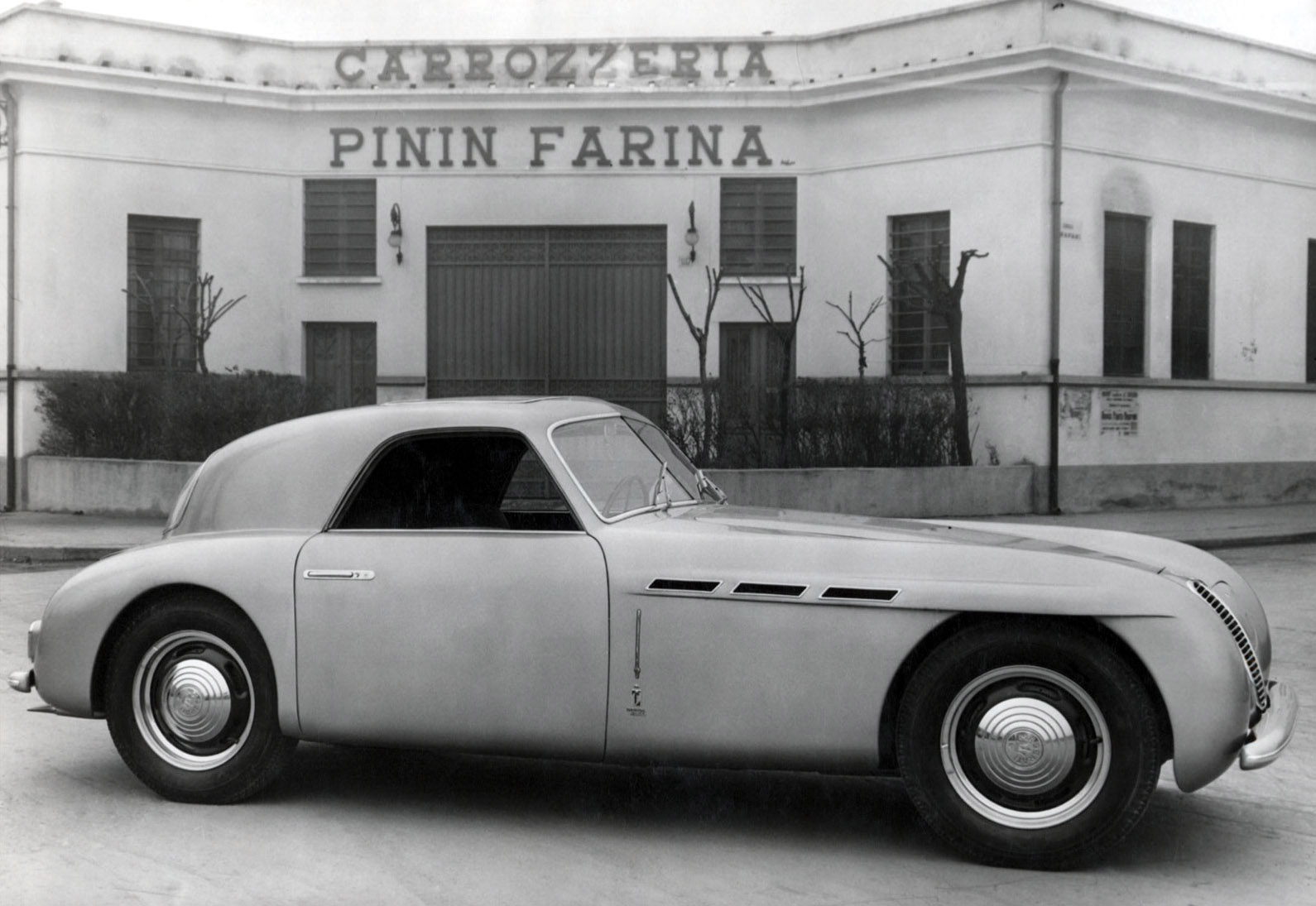 1947 Maserati A6 1500 Prototype No. 1 by Pinin Farina, outside a Pinin farina building. This particular car was displayed at the 1947 Geneva Salon.